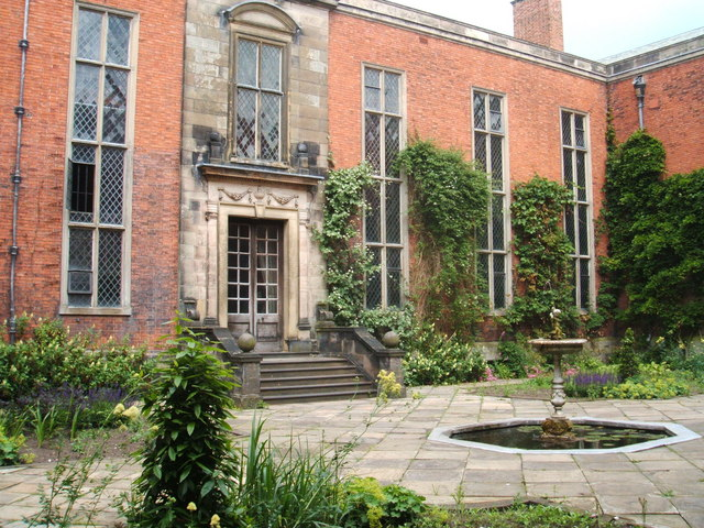 Courtyard and fountain in Dunham Massey Hall